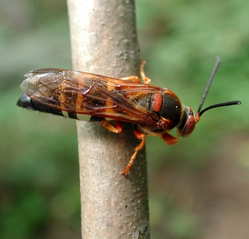 Eastern cicada-killer-wasps, Sphecius speciosus, enemy of Magicicada septendecim, 17-year-periodical cicada, 17-Jahr-Zikade, Baltimore, USA